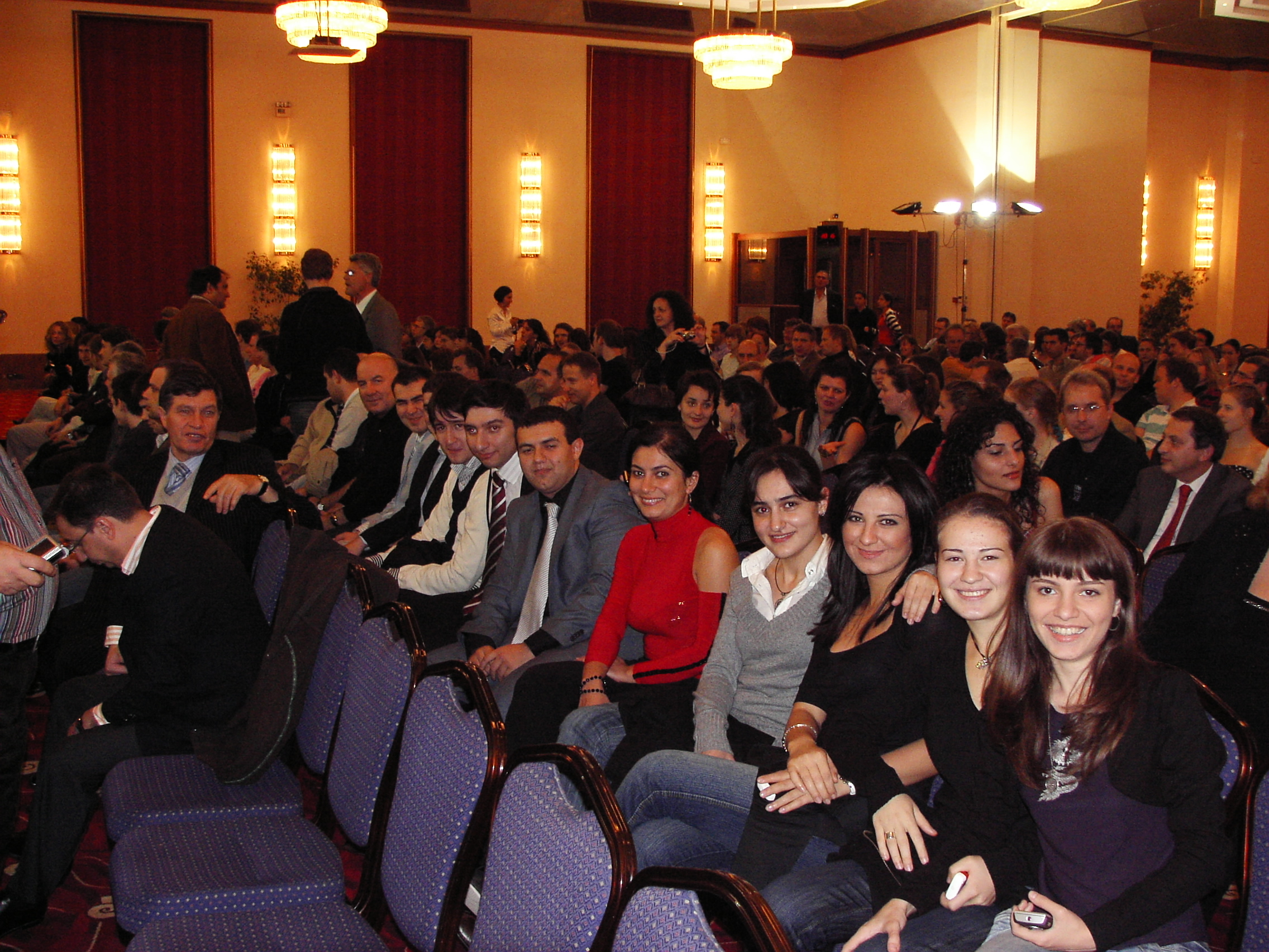 Azerbaijani Chess team at the EuroChess 2007.